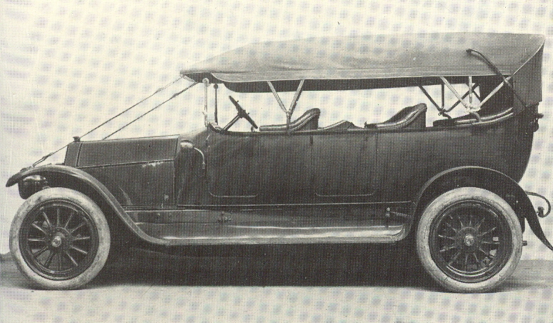 Fiat Tipo 6 Torpedo (1912)